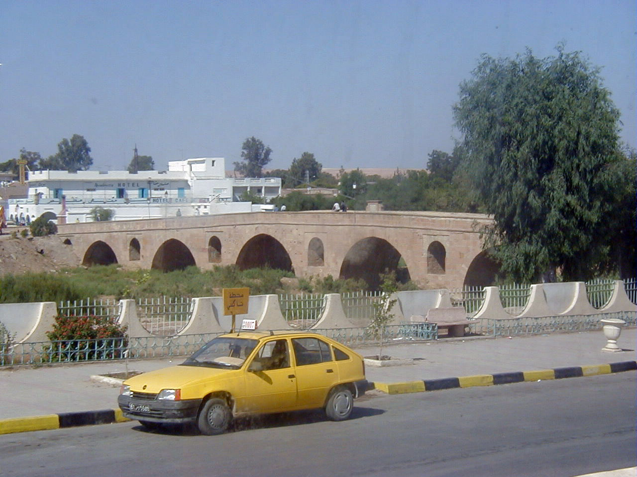 Ancient bridge in Medjez el Bab, Tunisia (XVII century)